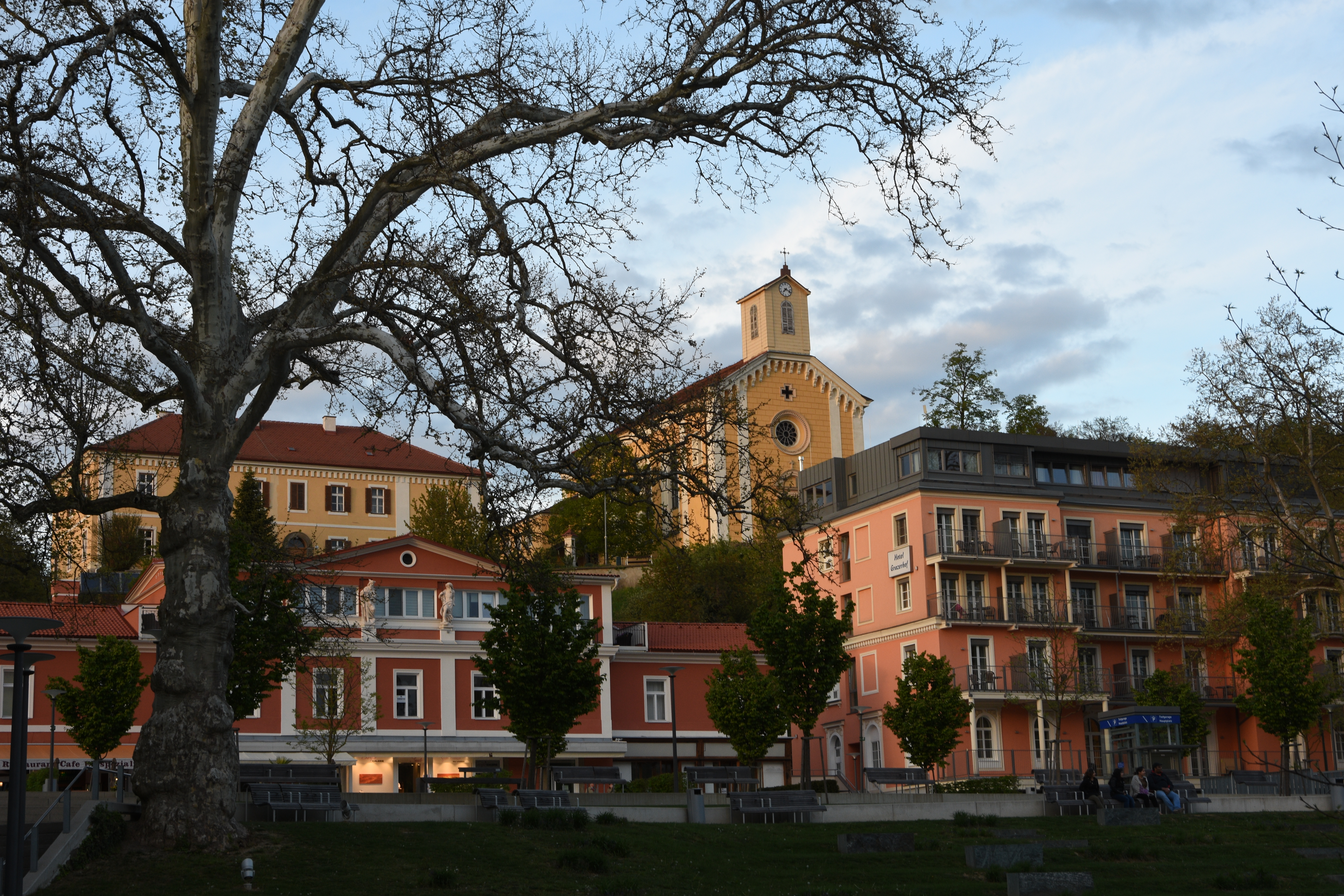 Saint Matthew Church (Bad Gleichenberg)